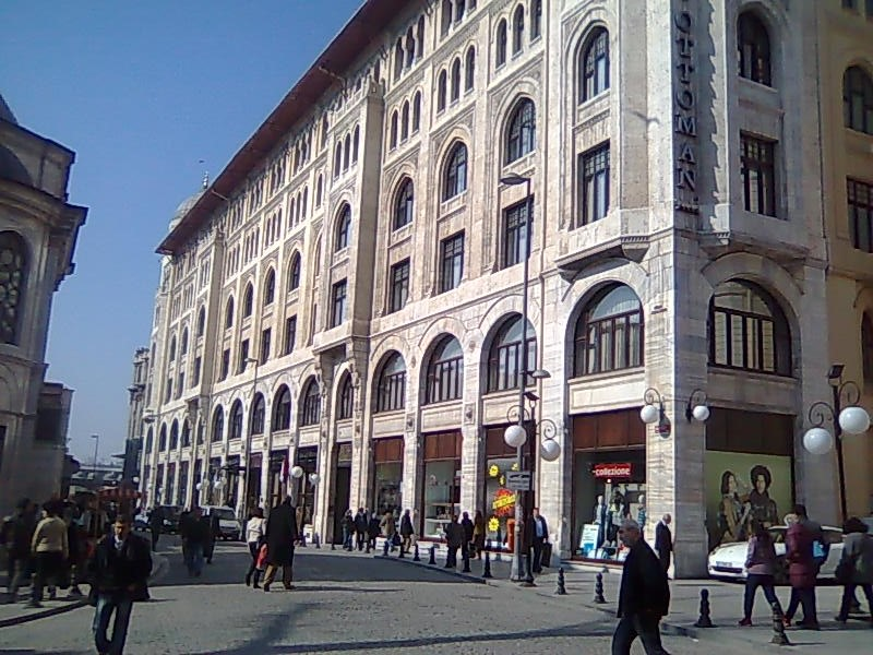 Istanbul 4th Vakıf Han seen from east